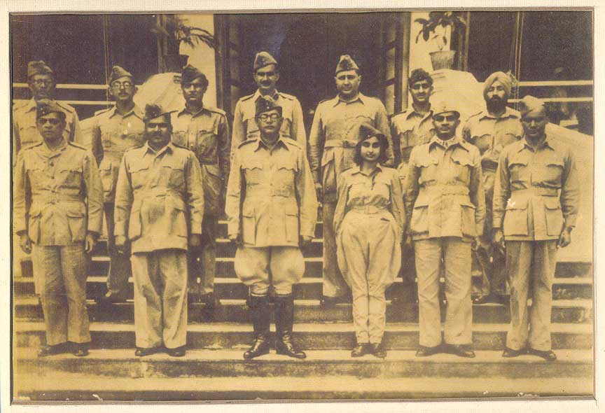 Netaji Subhas Chandra Bose and Members of the Azad Hind Fauj - 1940's Ceremonial Chief. Subhash Chandra Bose, Maj.Gen. Jaganath Rao Bhonsle, Col. Mohammad Zaman Kiani, Col. Shahnawaz Khan, Col. G.S.Dhillon, Col. P.K. Sahgal, Capt. Lakshmi Sahgal, Capt. Abid Hasan, Lt. R.H. Rizvi